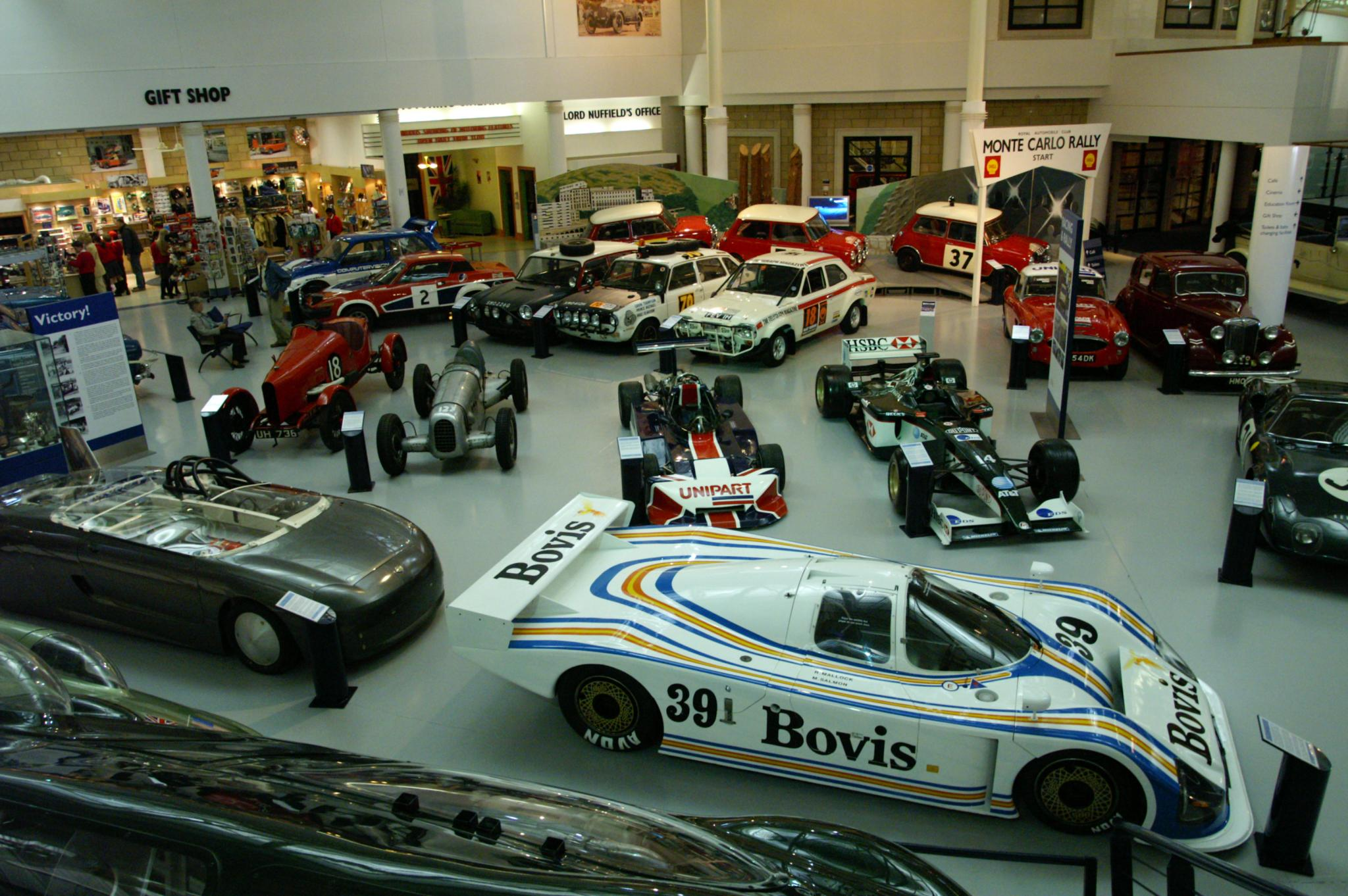 Heritage Motor Centre, Gaydon, Warwickshire